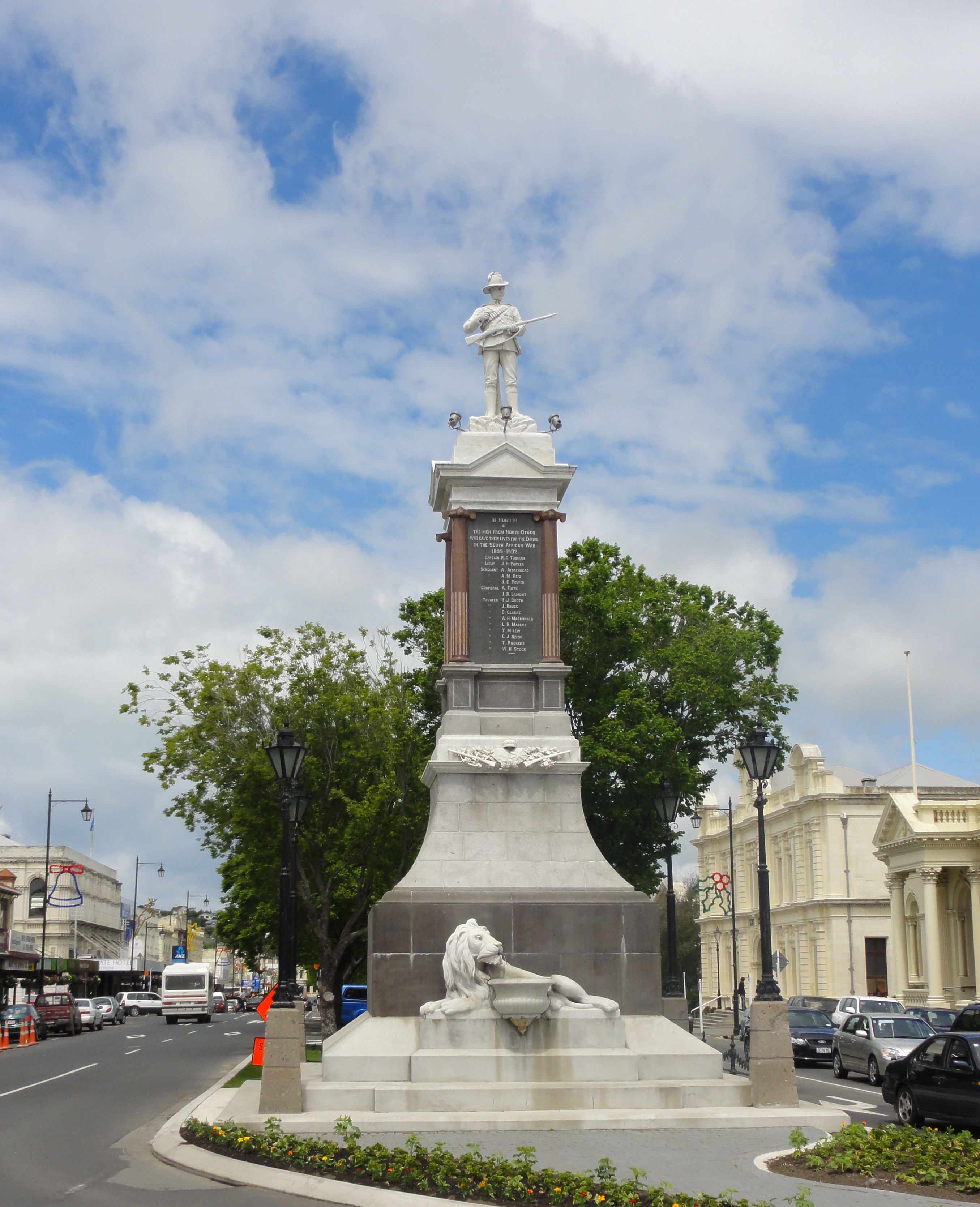 Memorial for Second Boer War victims of Northern Otago, Oamaru, New Zealand